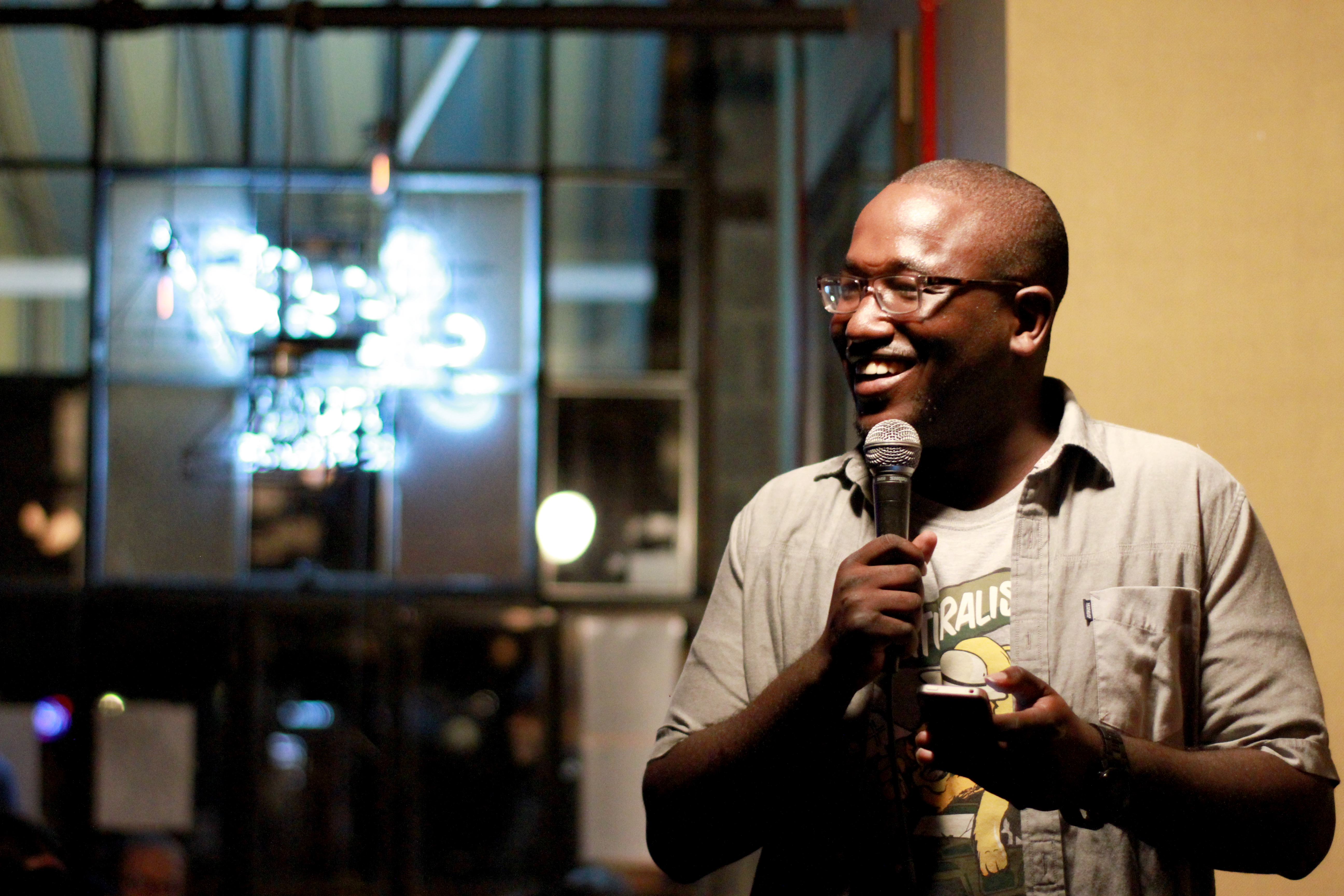 Photo of Hannibal Buress hosting his Sunday night showcase at The Knitting Factory, Brooklyn.